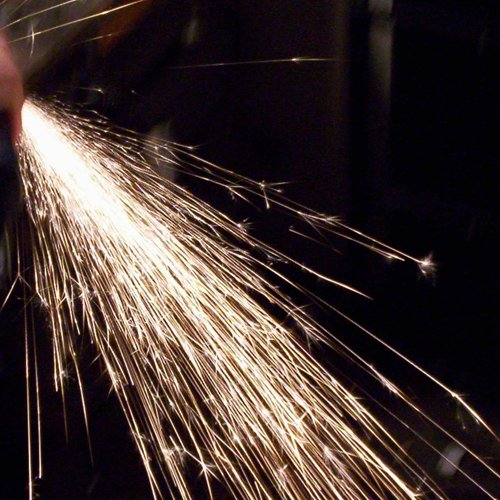 Photograph of a spark test of a high carbon steel.